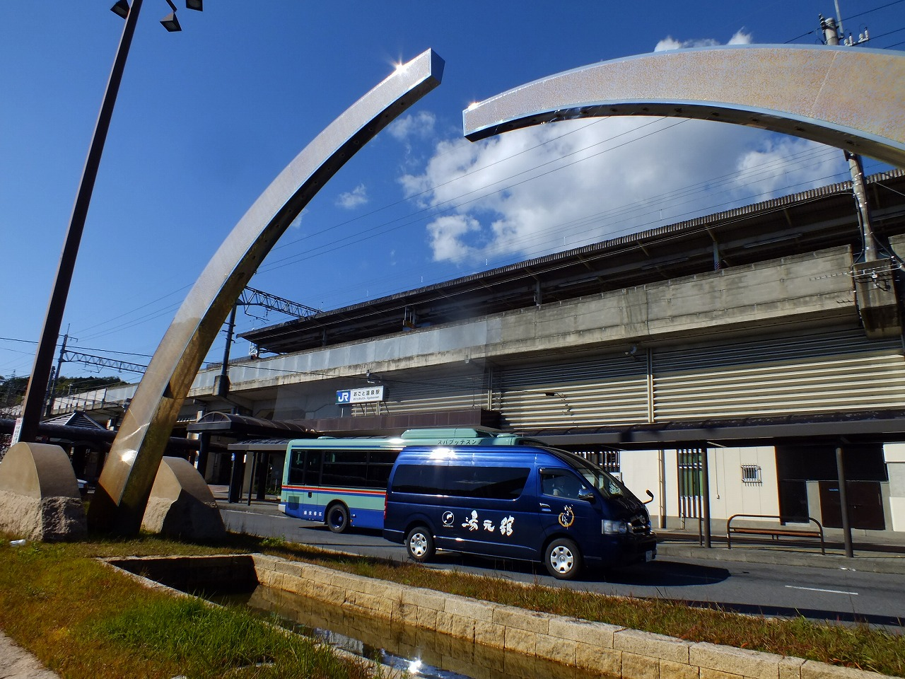 おごと温泉駅